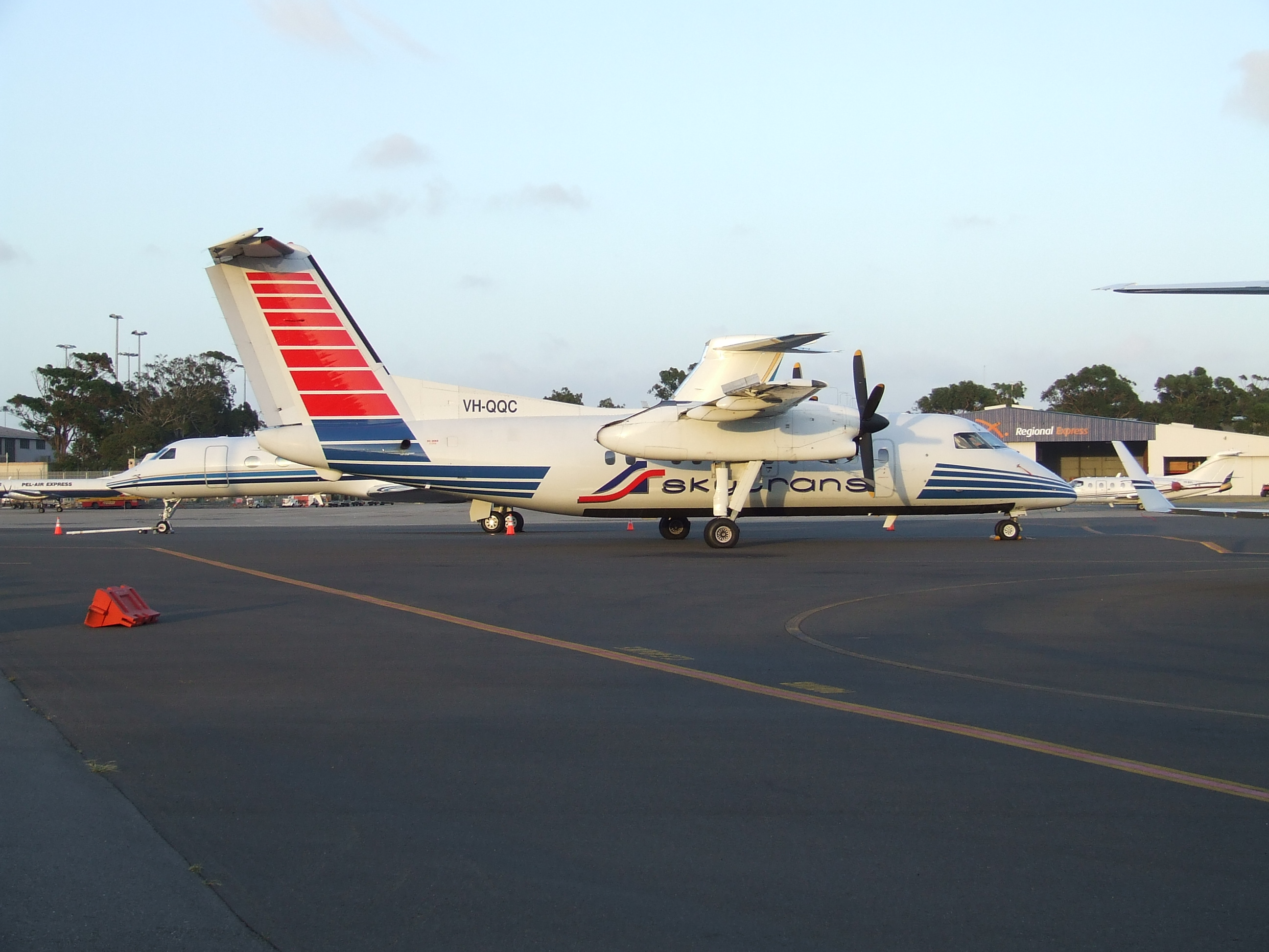 Skytrans Airlines de Havilland Canada Dash 8 VH-QQC. Sydney International Airport.